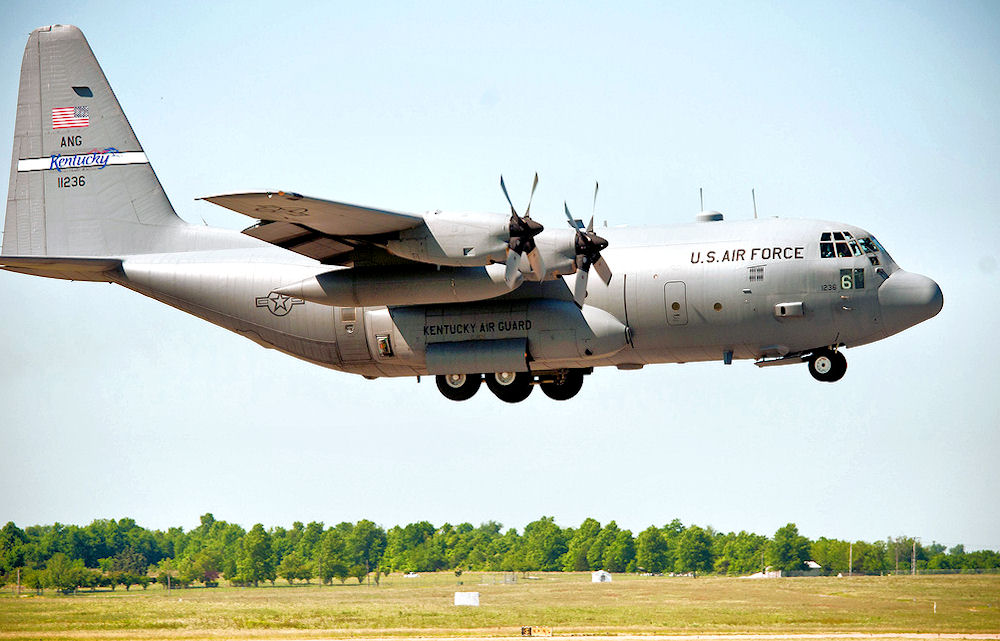 165th Airlift Squadron - Lockheed C-130H Hercules 91-1236 flies in for a landing at Springfield-Branson National Airport in Springfield, MO on May 17, 2011 during the National Level Exercise. The NLE is comprised of federal civil authorities supported by the Department of Defense. The NLE itself is a scenario of a 6.0 or higher earthquake on the New Madrid fault line. (U.S. Air Force photo by Senior Airman Maxwell Rechel)